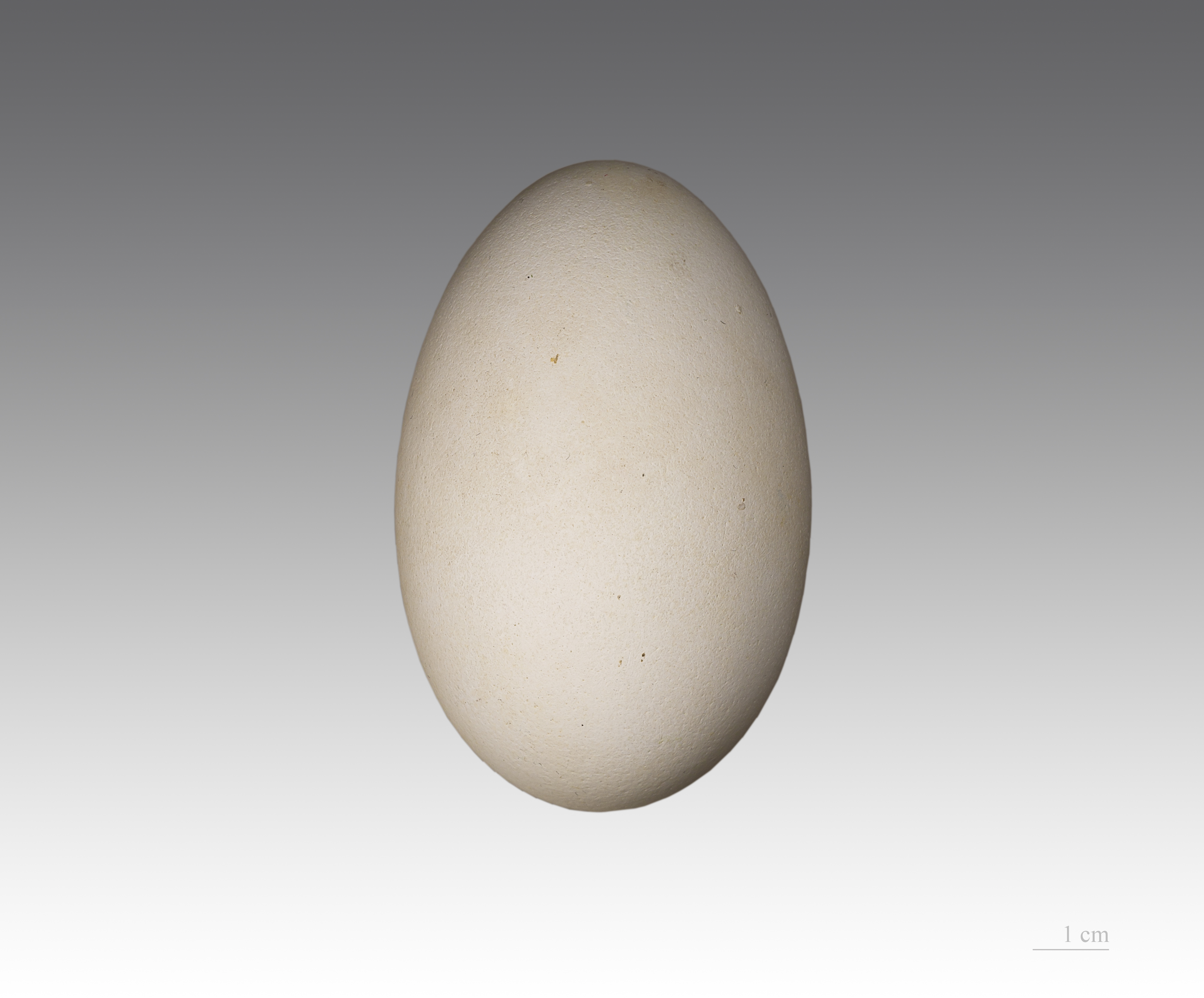 Egg of Southern Fulmar - Collection of Jacques Perrin de Brichambaut Locality: French Antarctic Expedition 1956